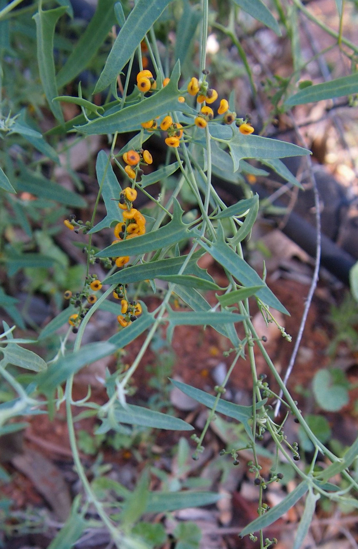 Einadia nutans fruit and foliage